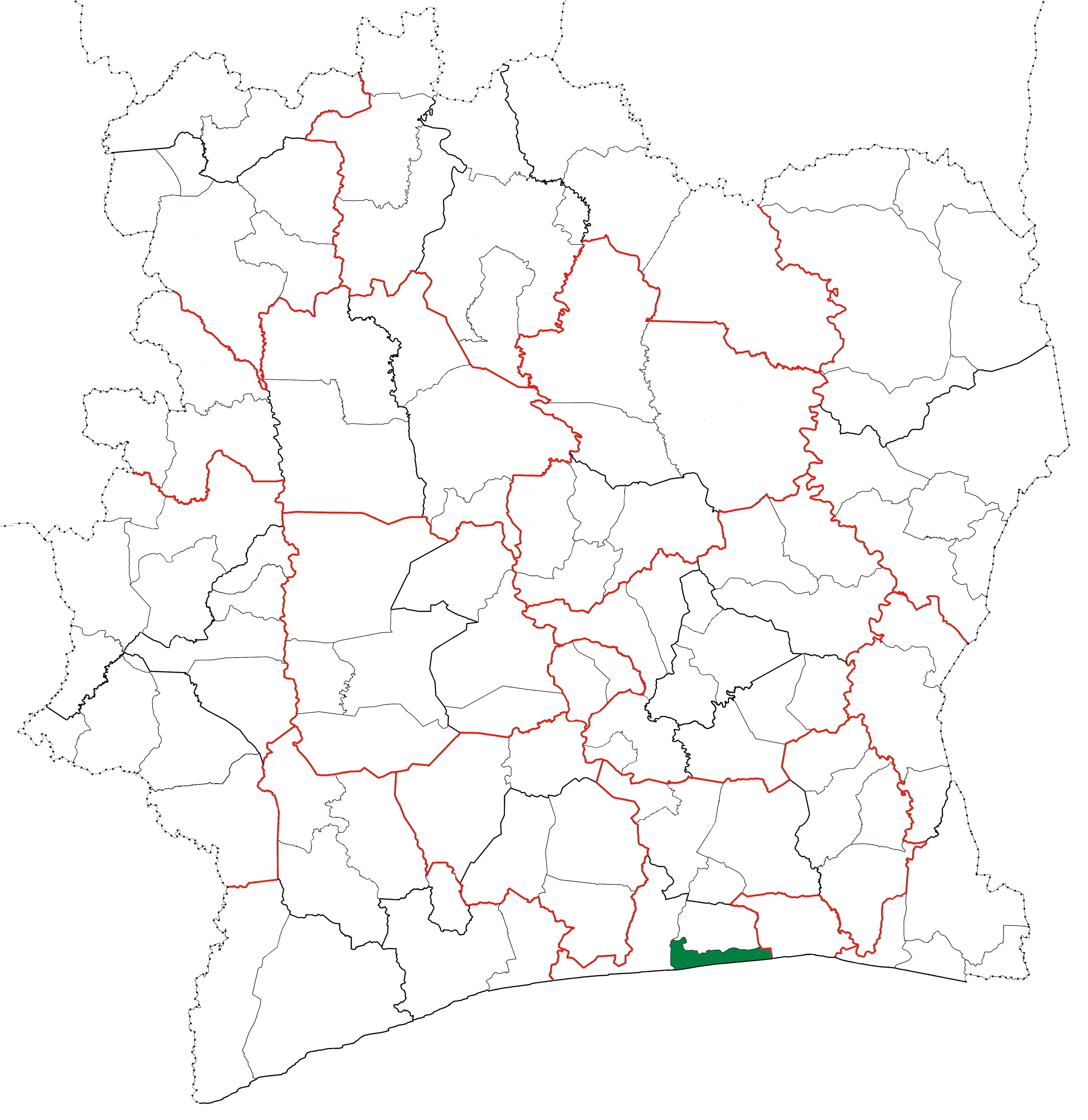 Locator map for Jacqueville Department in Côte d'Ivoire.